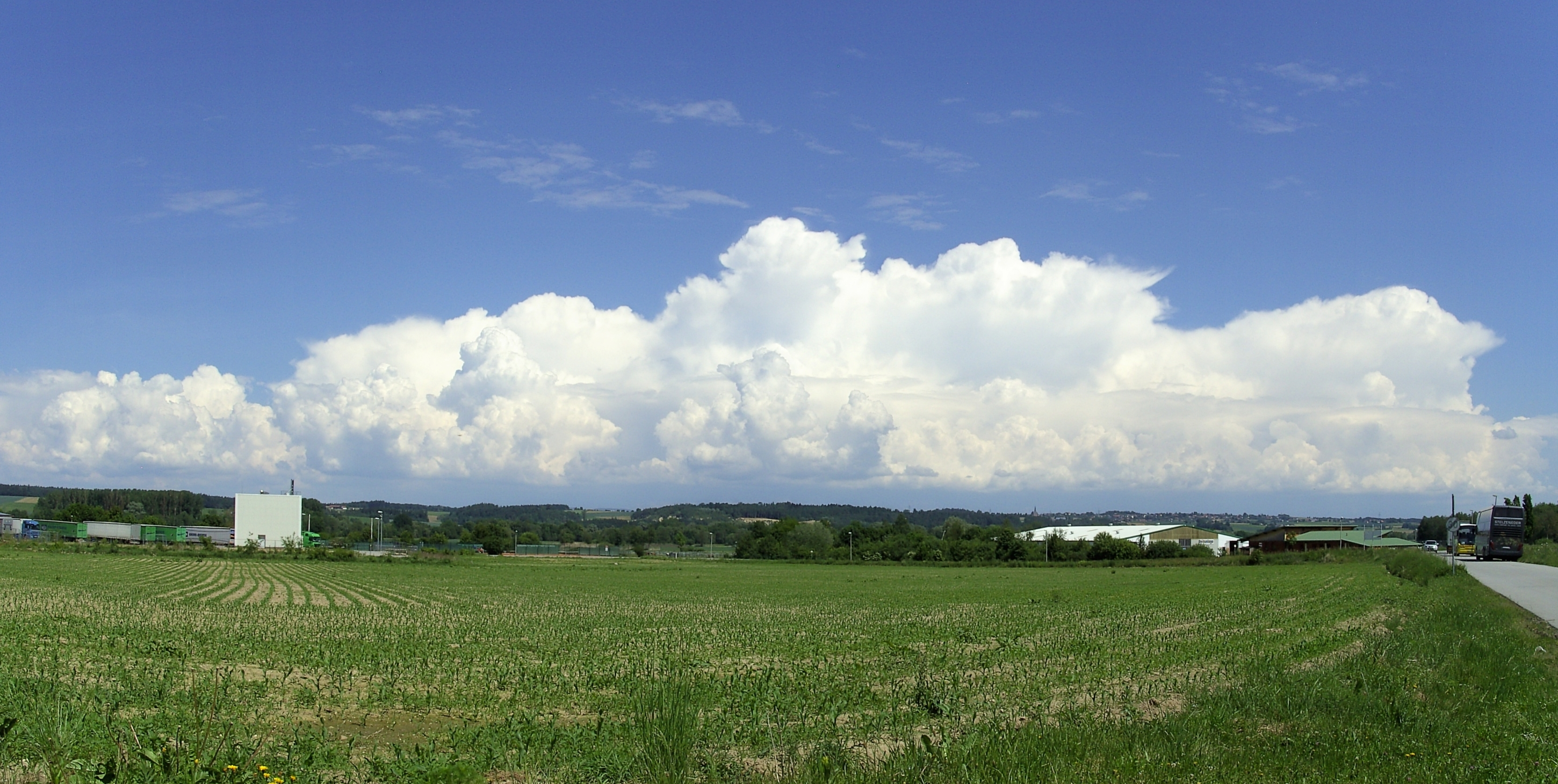 Squall line over North East Bavaria